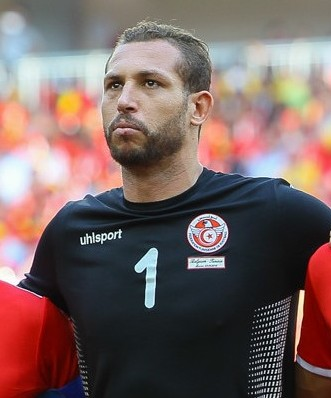 Tunisia national football team